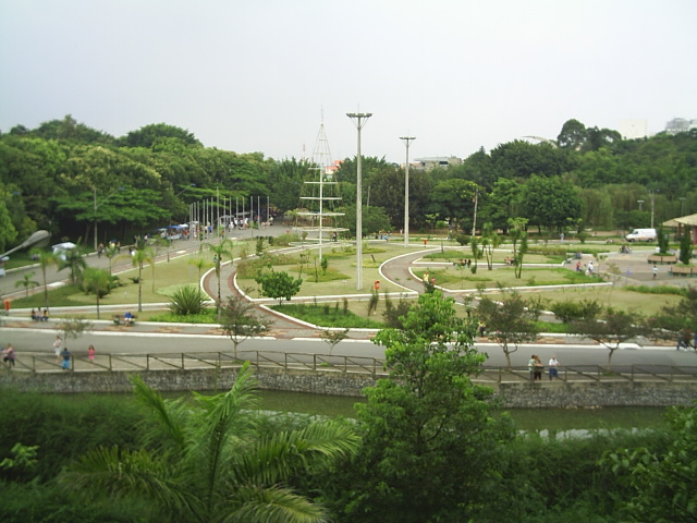 Ecological Park Chico Mendes in São Caetano do Sul.